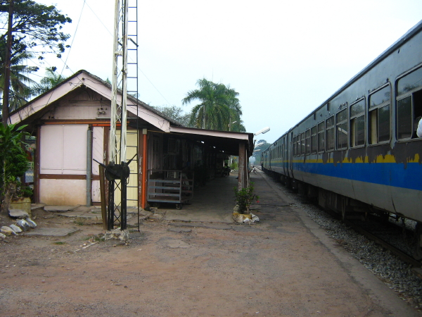 Bahau railway station in 2008